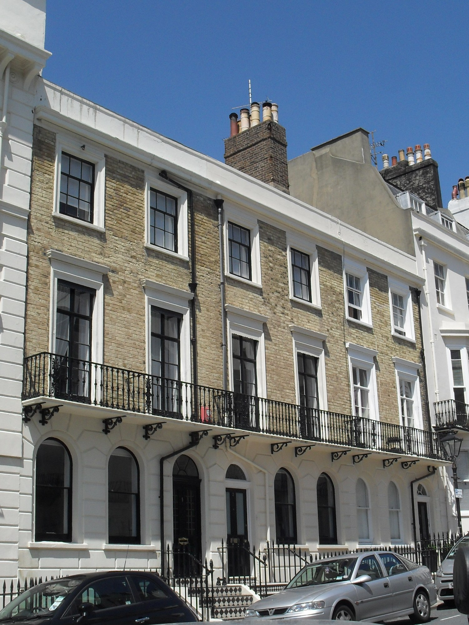 1–3 Belgrave Place, Kemptown, City of Brighton and Hove, England. Three houses built in 1846 at the southwest corner of this narrow square on Brighton seafront. Listed at Grade II by English Heritage (IoE Code 479463)